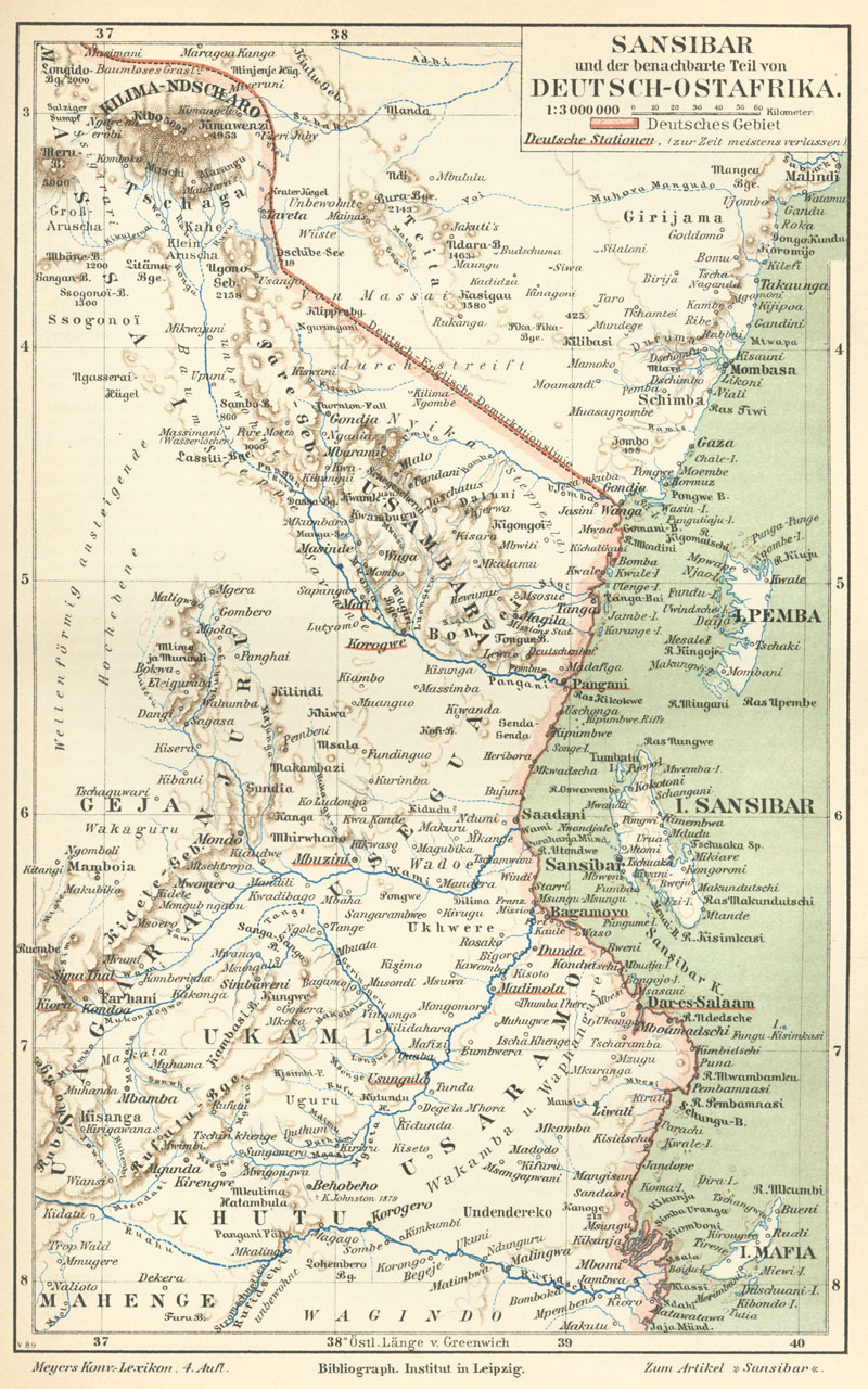 German map of Zanzibar and German East Africa (Tanzania) c. 1890, with Mount Kilimanjaro ("KILIMA-NDSCHARO"). Also, Mombasa in British East Africa (Kenya).